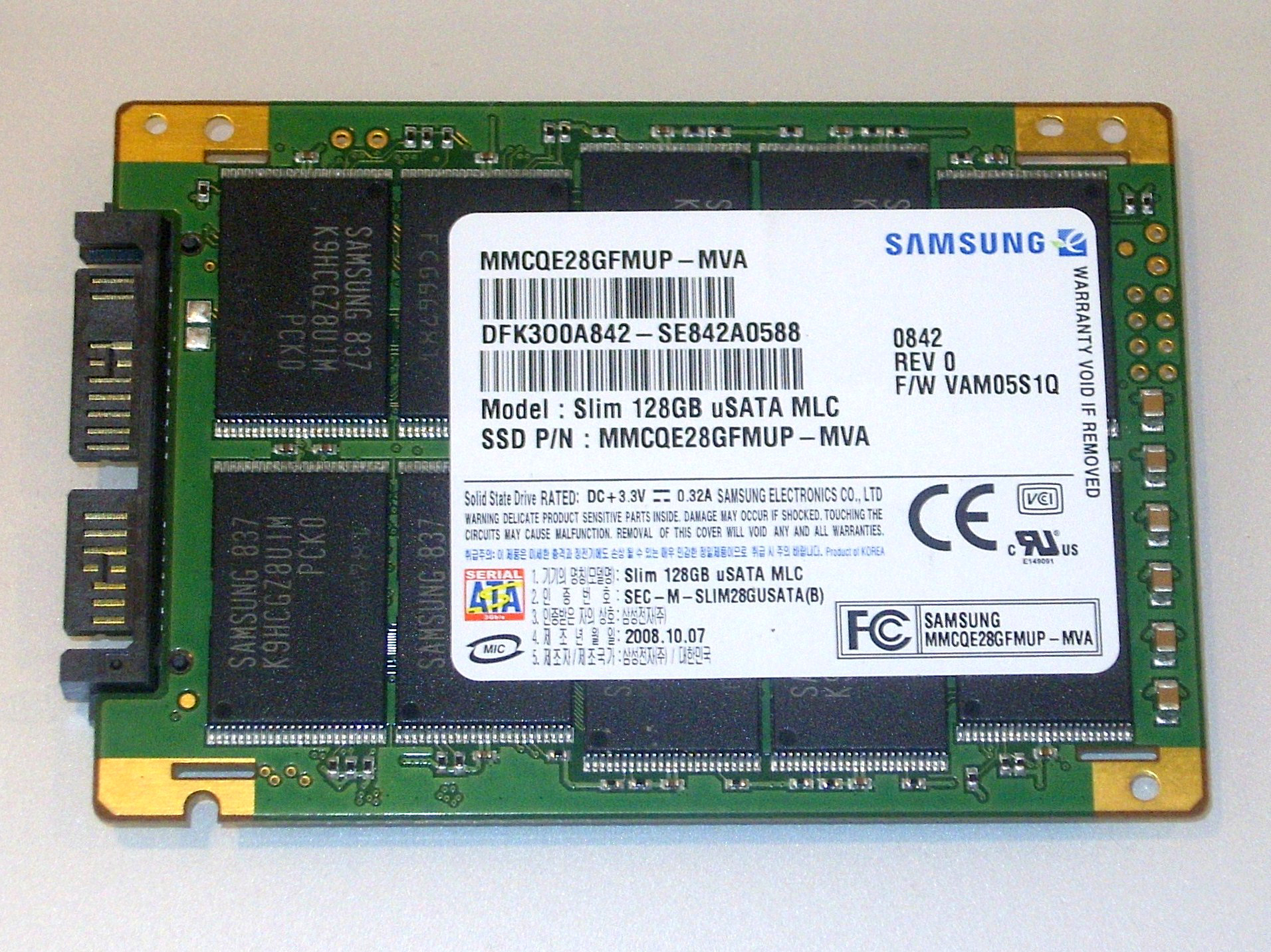 2008 Intel Developer Forum in Taipei: Samsung muSATA_128GB_SSD.